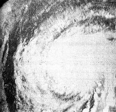 A NASA satellite image of Hurricane Esther in 1961. This makes it one of the first satellite images taken of a hurricane.